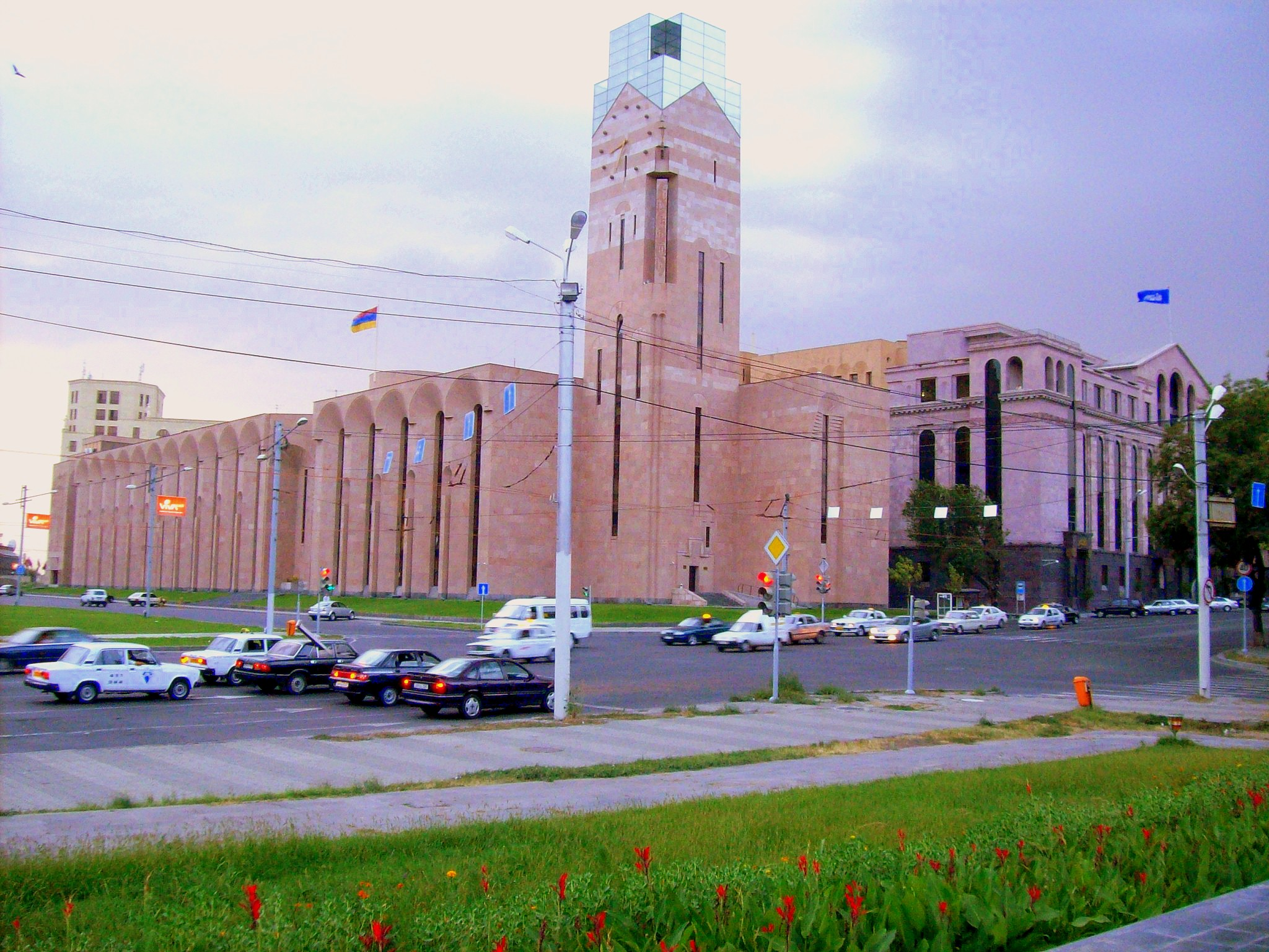 Yerevan City Hall